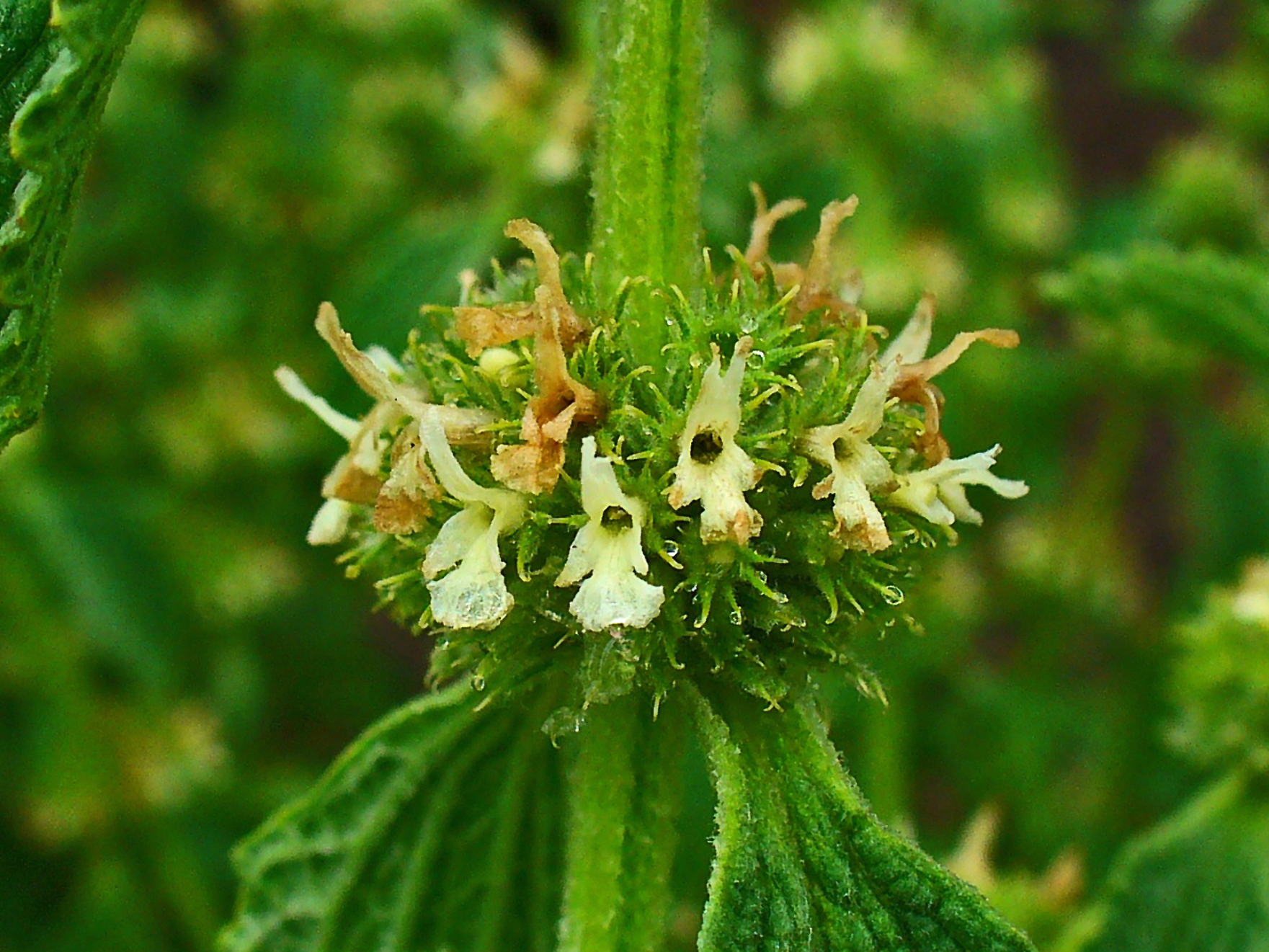 Marrubium vulgare, Lamiaceae, White Horehound, Common Horehound, inflorescence; Botanical Garden KIT, Karlsruhe, Germany.